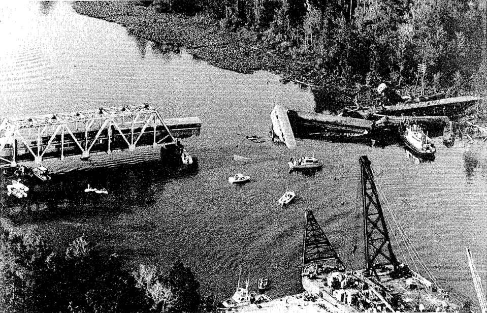 The wrecked Sunset Limited at Big Bayout Canot.